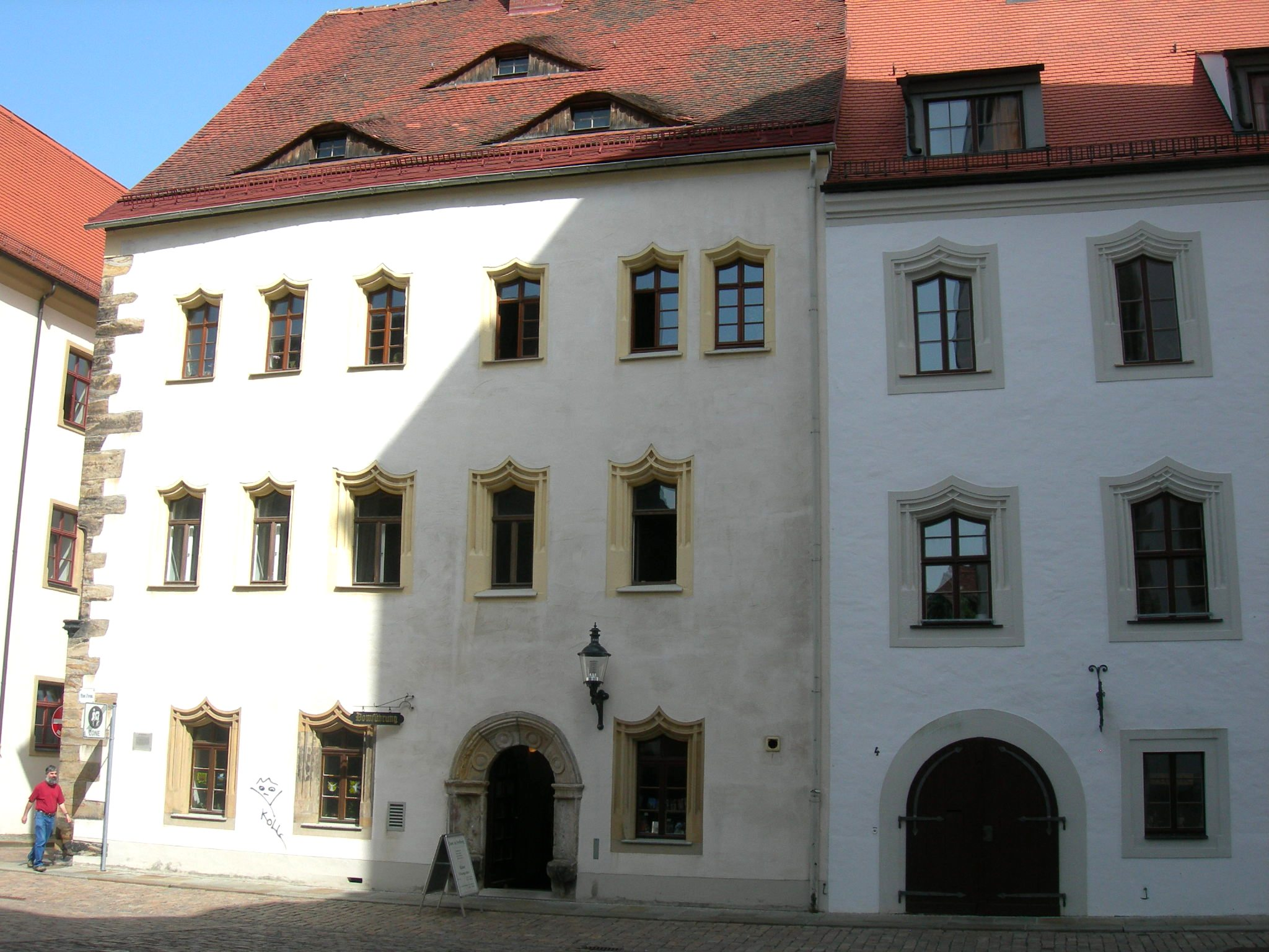 Freiberg, St. Marien, parish house. After 1485.